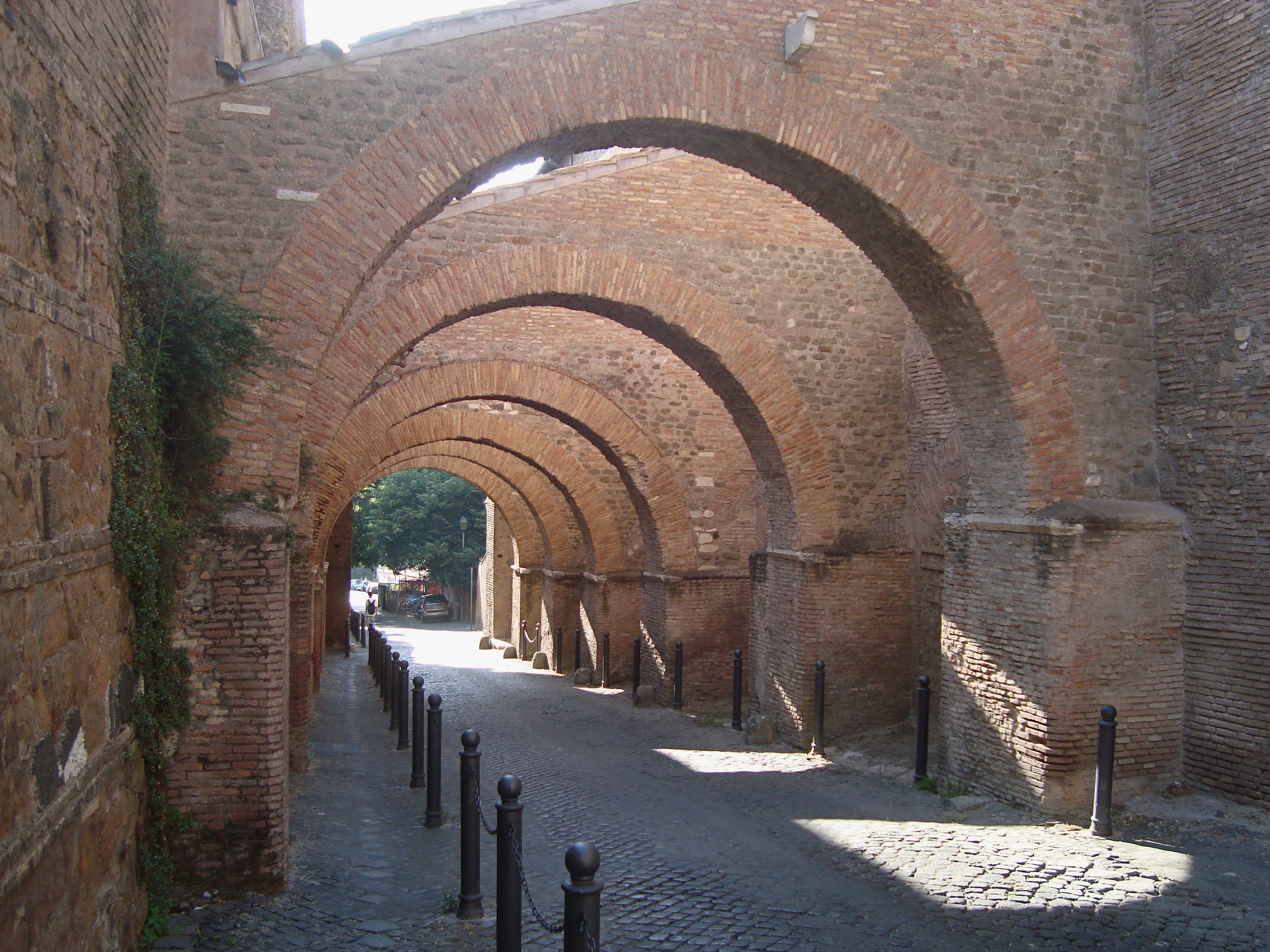 View of the clivus Scauri and the arcades of basilica di Santi Giovanni e Paolo